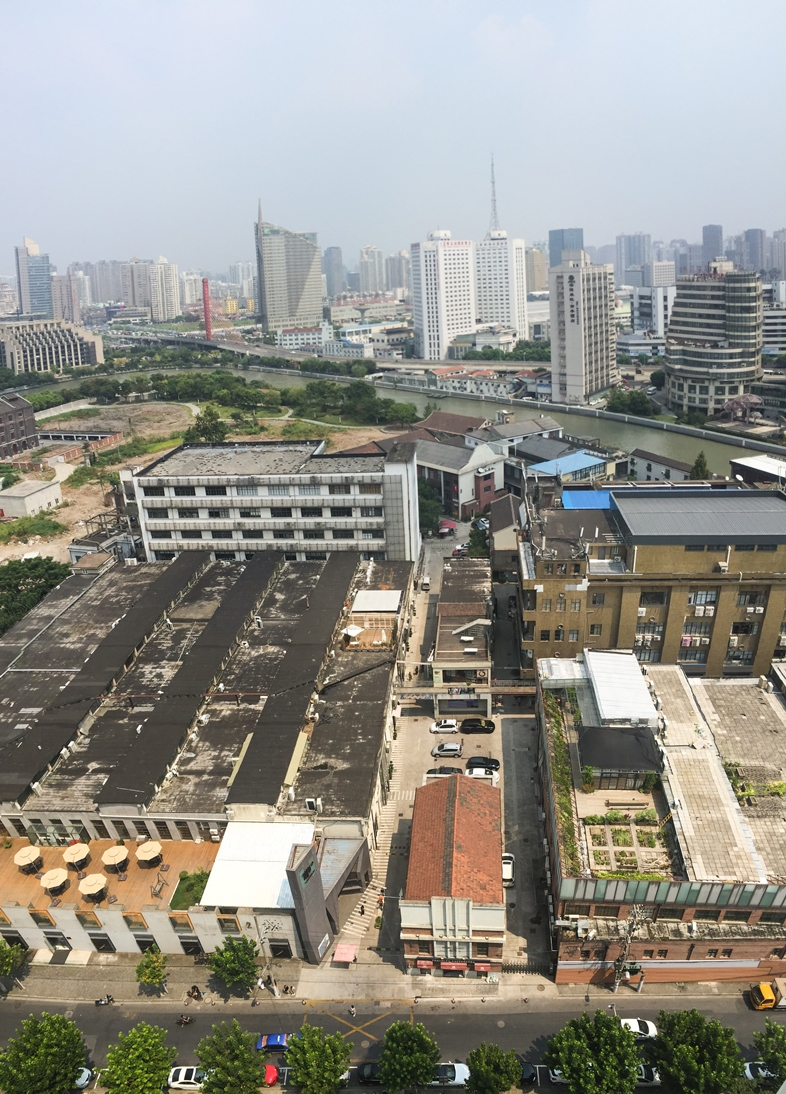 Az M50 madártávlatból